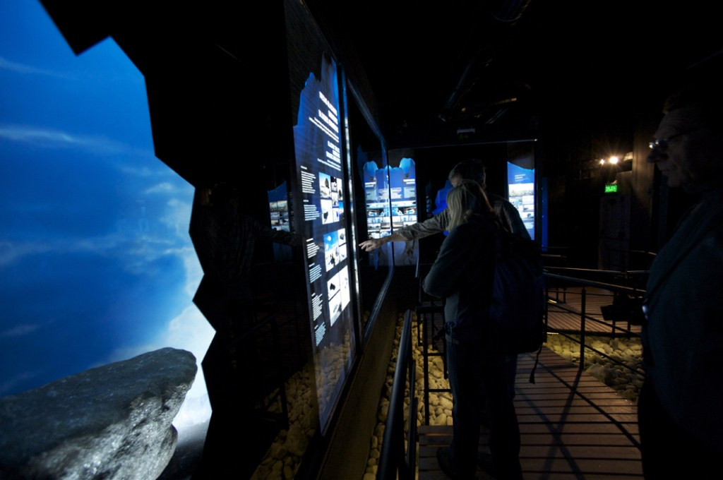 Glaciarium Dioramas